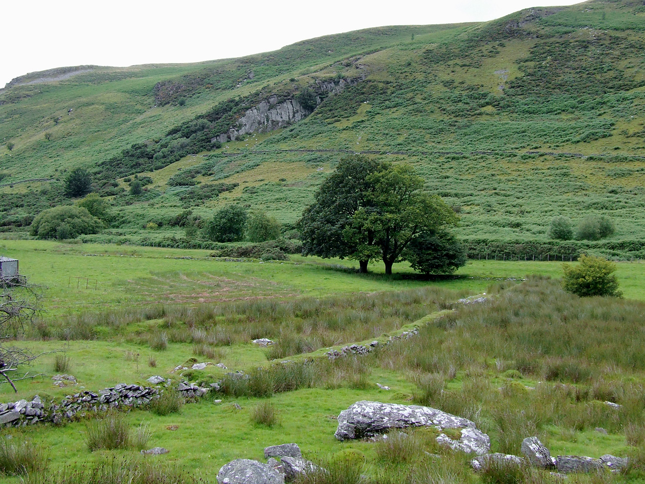 Grazing Land and Hillside, Cwm Brefi, Ceredigion